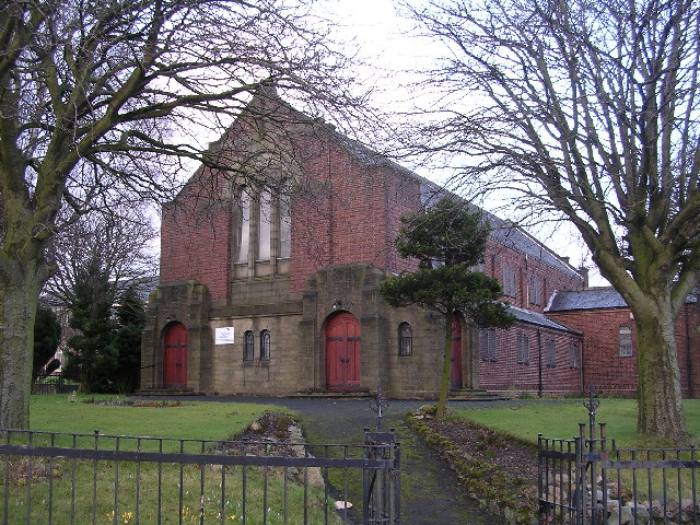 Carntyne Original description: High Carntyne Parish Church